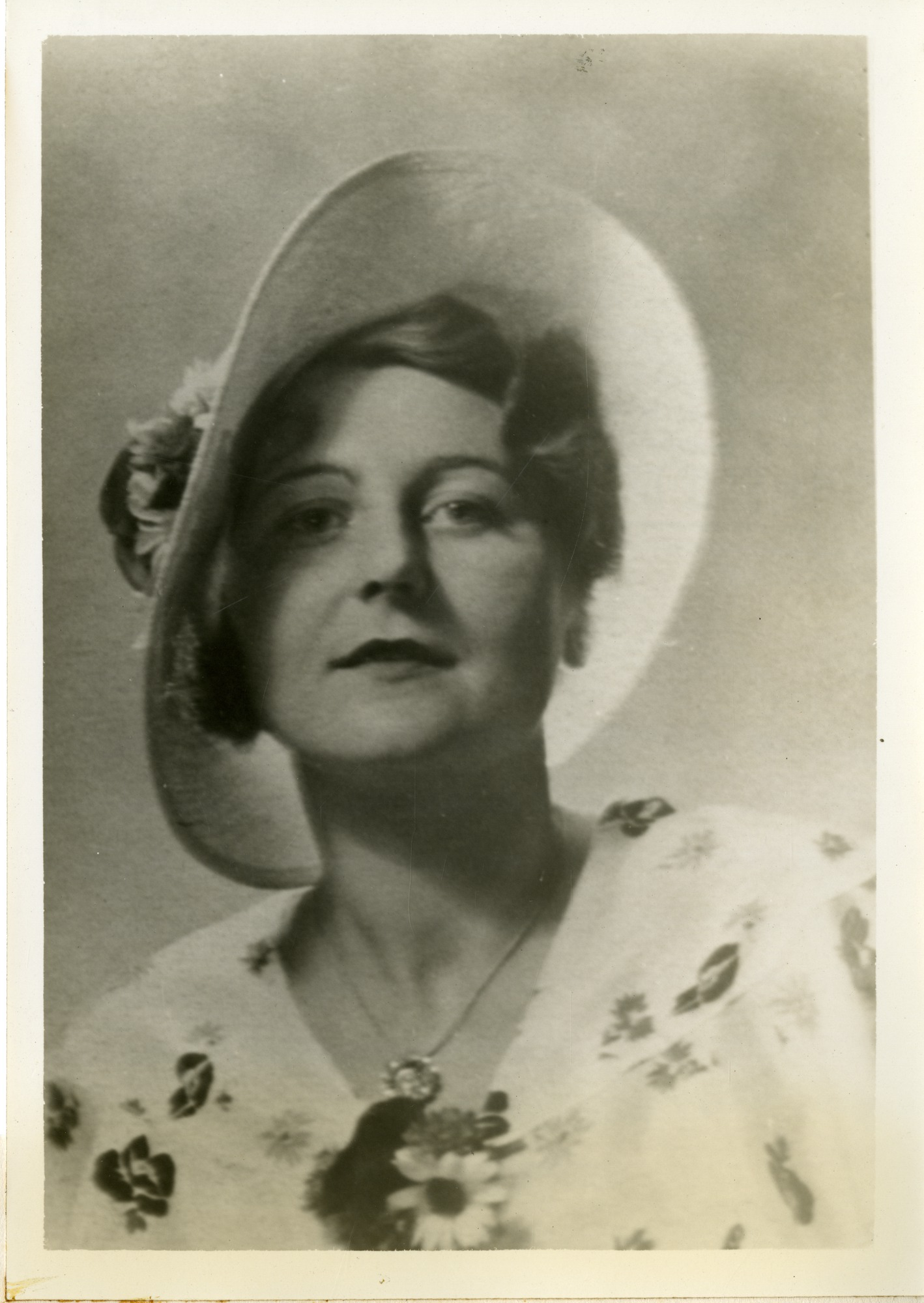 Austrian research chemist Edith Kroupa, 1934. The original caption dated September 18, 1934, reads: "While revolution upset Vienna, Miss Edith Kroupa, research chemist working with a new method of microchemical analysis in the laboratory of Prof. A. Franke at the University of Vienna, analyzed a sample of radioactive rock from near Winnipeg, Canada," determining it to be over 1,725,000,000 years old. Earlier that same year, Kroupa and her colleague Friedrich Hecht had discovered triple-weight hydrogen.